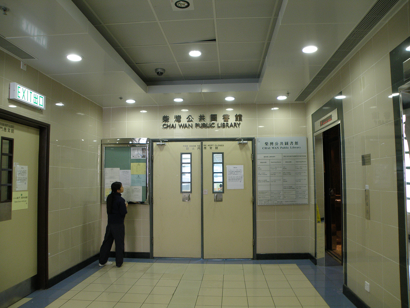 Chai Wan Public Library in Chai Wan, Hong Kong.